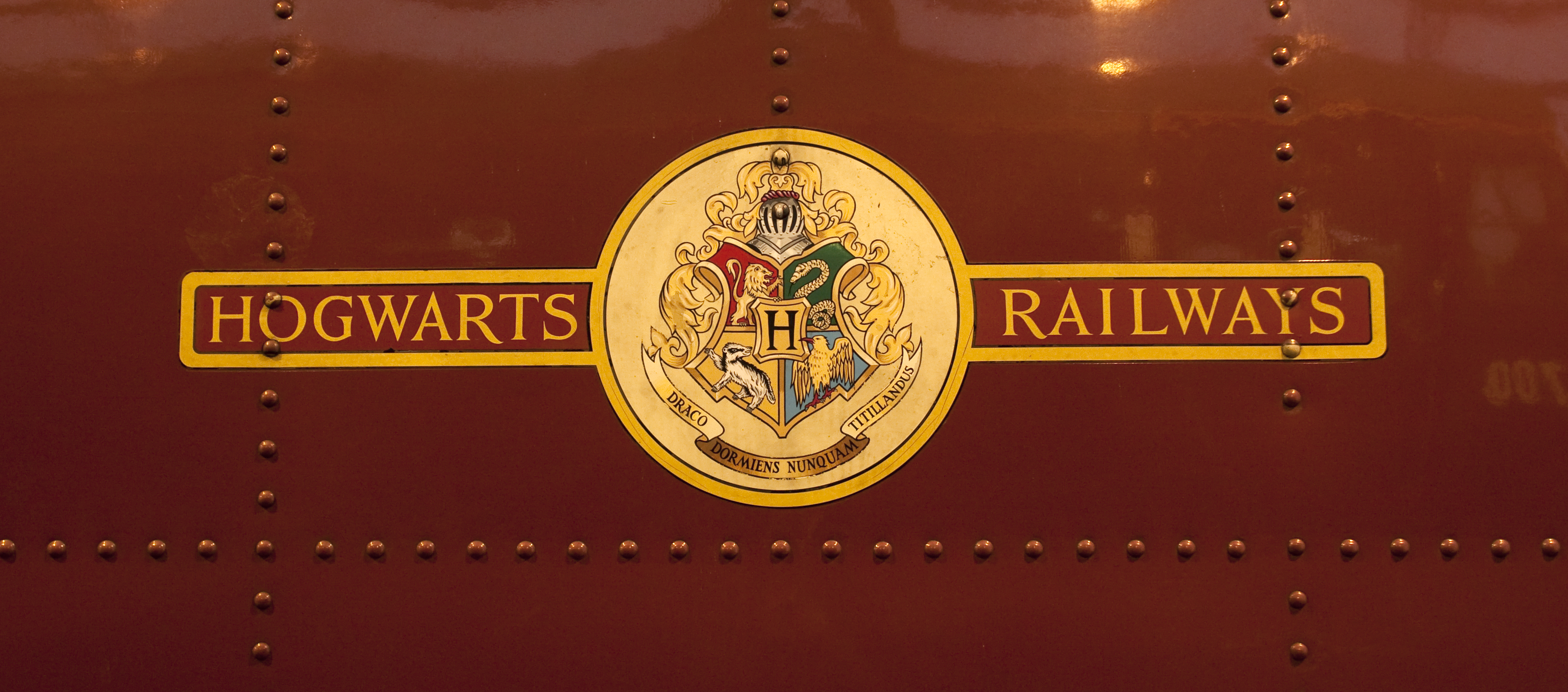 Hogwarts Railways